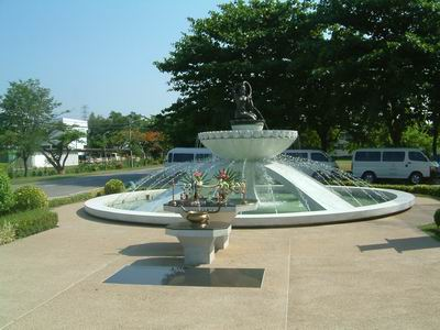 Phra Mae Thorani Squeeze hair Created by Queen Saovabha Phongsri